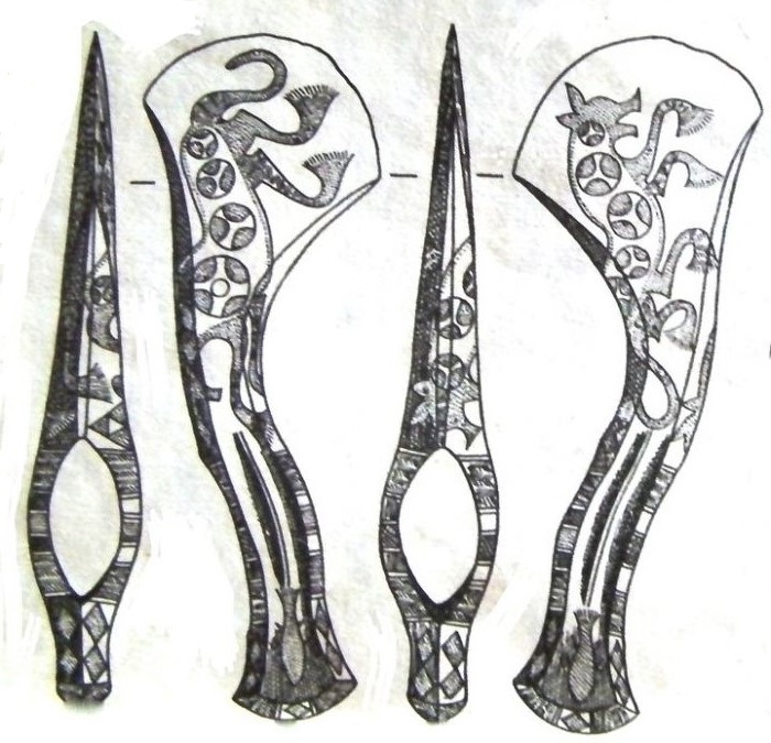 Colchian Axes